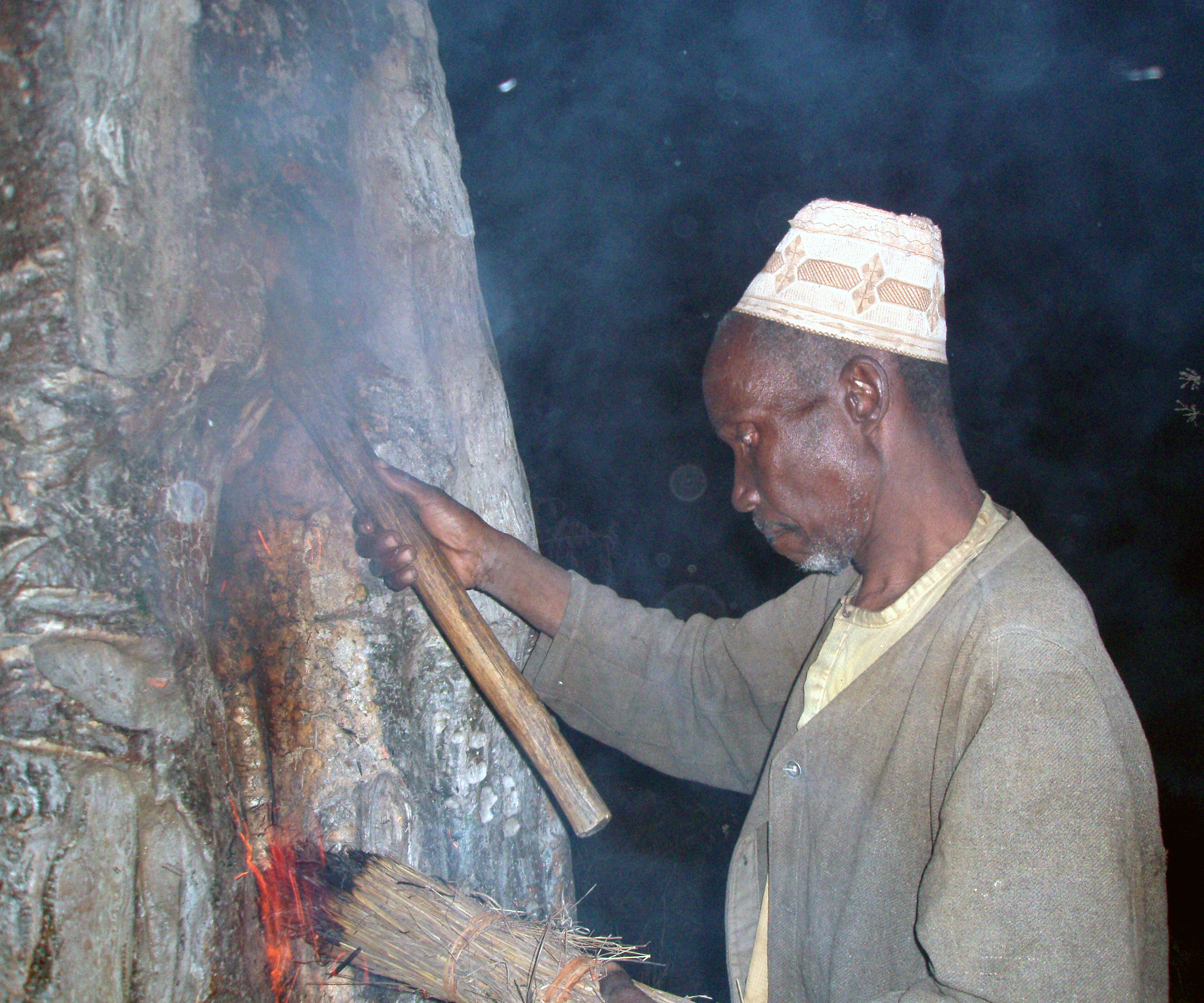 Honey from African killer bees Picture taken by Vignes